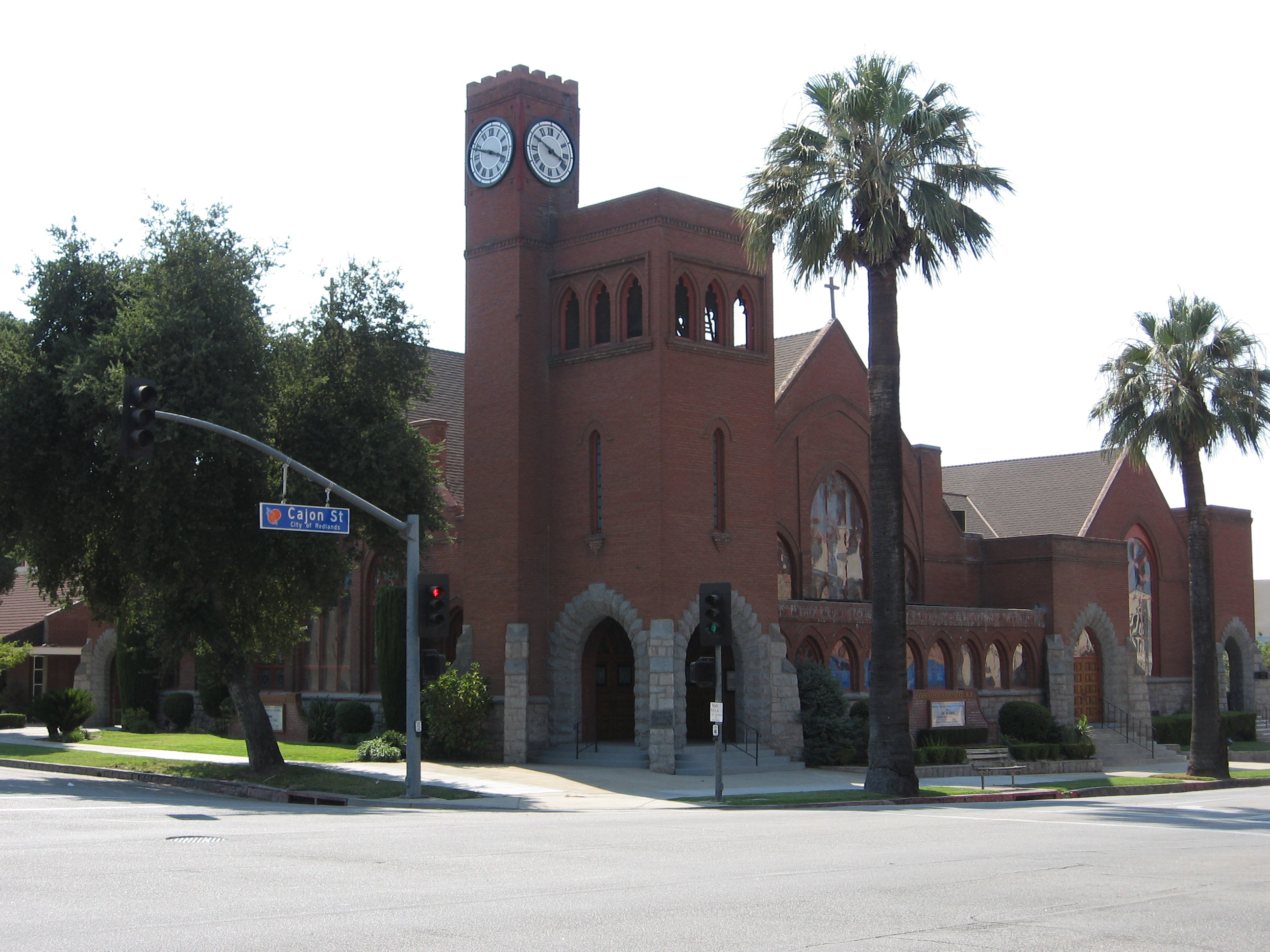 First Congregational Church of Redlands, California